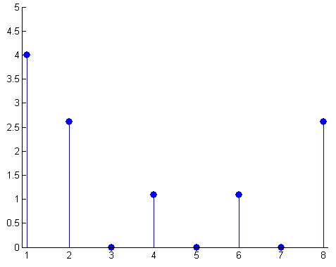 DFT of a discrete signal